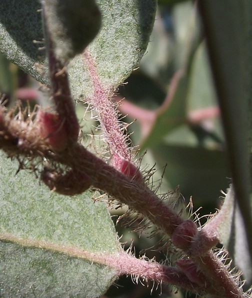 Hairy twigs of Arctostaphylos pungens at the San Diego Wild Animal Park, California, USA. Plant identified by sign.